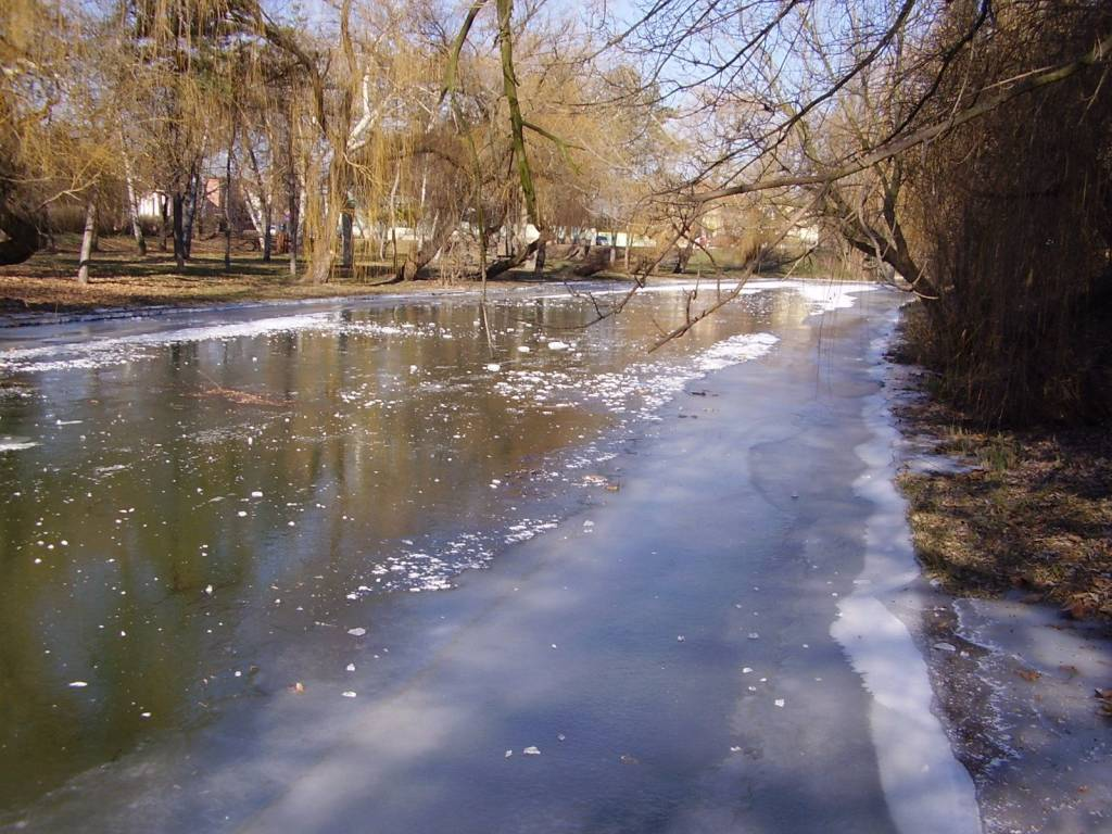 The Élővíz-canal in January, in the city Békéscsaba, Hungary